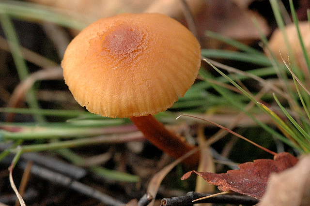 Laccaria laccata s. l. from Commanster, Belgium. The determination of the species shown in this picture has been verified.